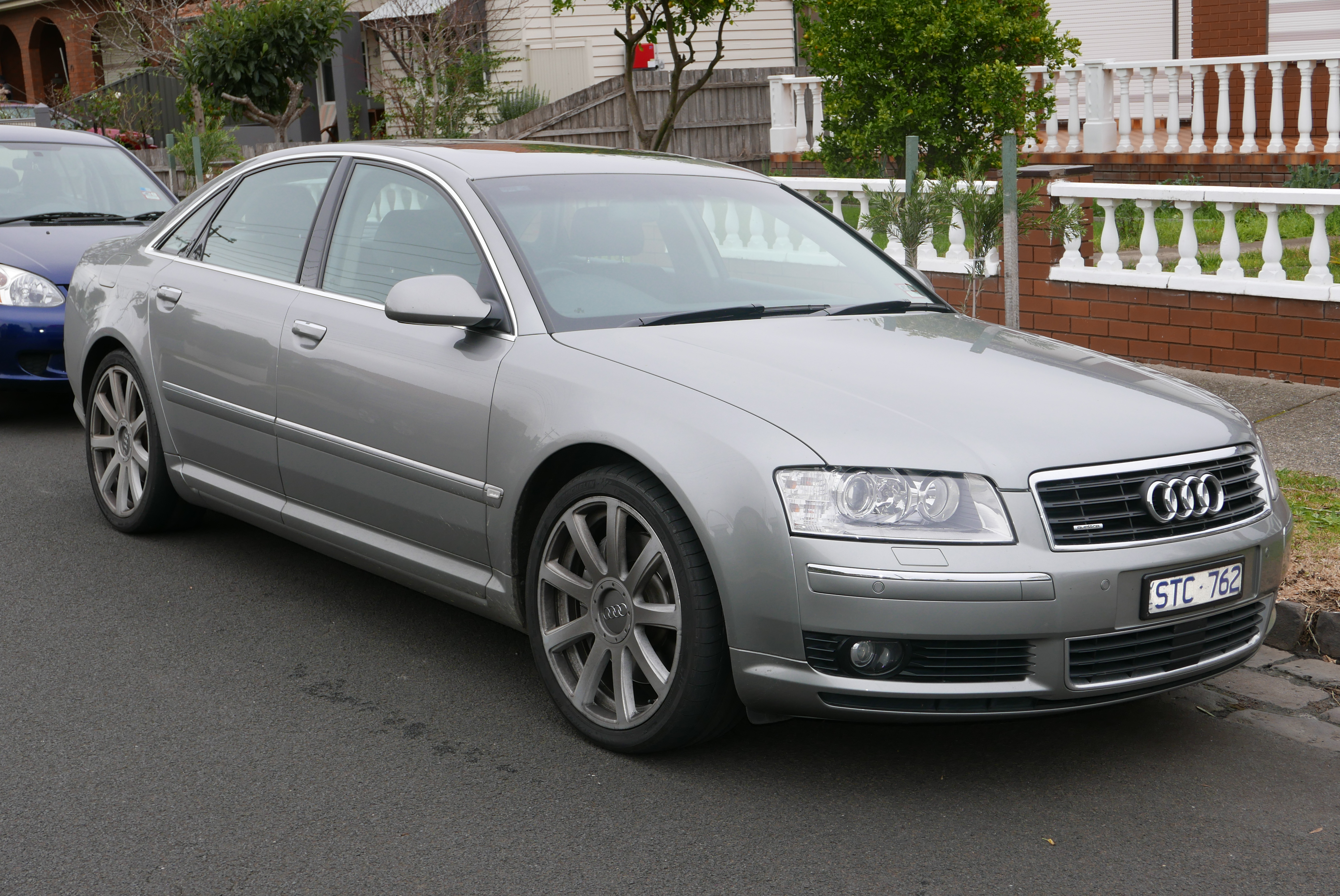 2004 Audi A8 (4E) 4.2 quattro sedan. Photographed in Coburg, Victoria, Australia. Vehicle registration enquiry results Jurisdiction Victoria Registration STC762 Chassis code WAUZZZ4E24N019288 Engine code BFM019980 Compliance date 2004-04 Year of manufacture 2004